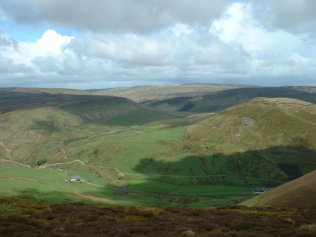 Whin Fell, Bowland. Looking down on Brennand Farm [left] and Lower Brennand [right]